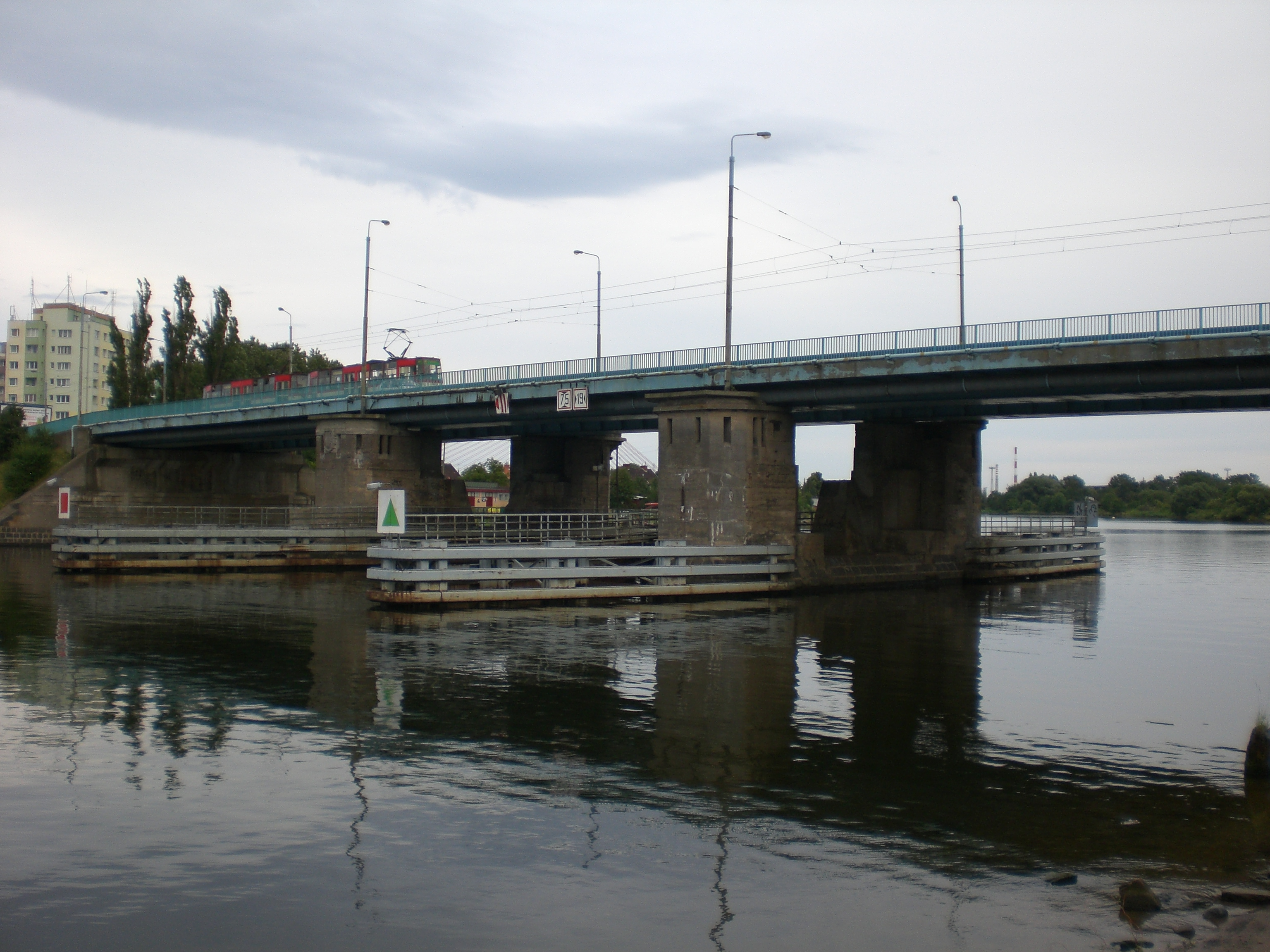 Sinnicki Bridge in Gdańsk